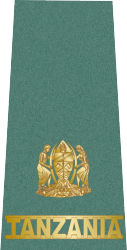 Major (Tanzania Army OF-03)